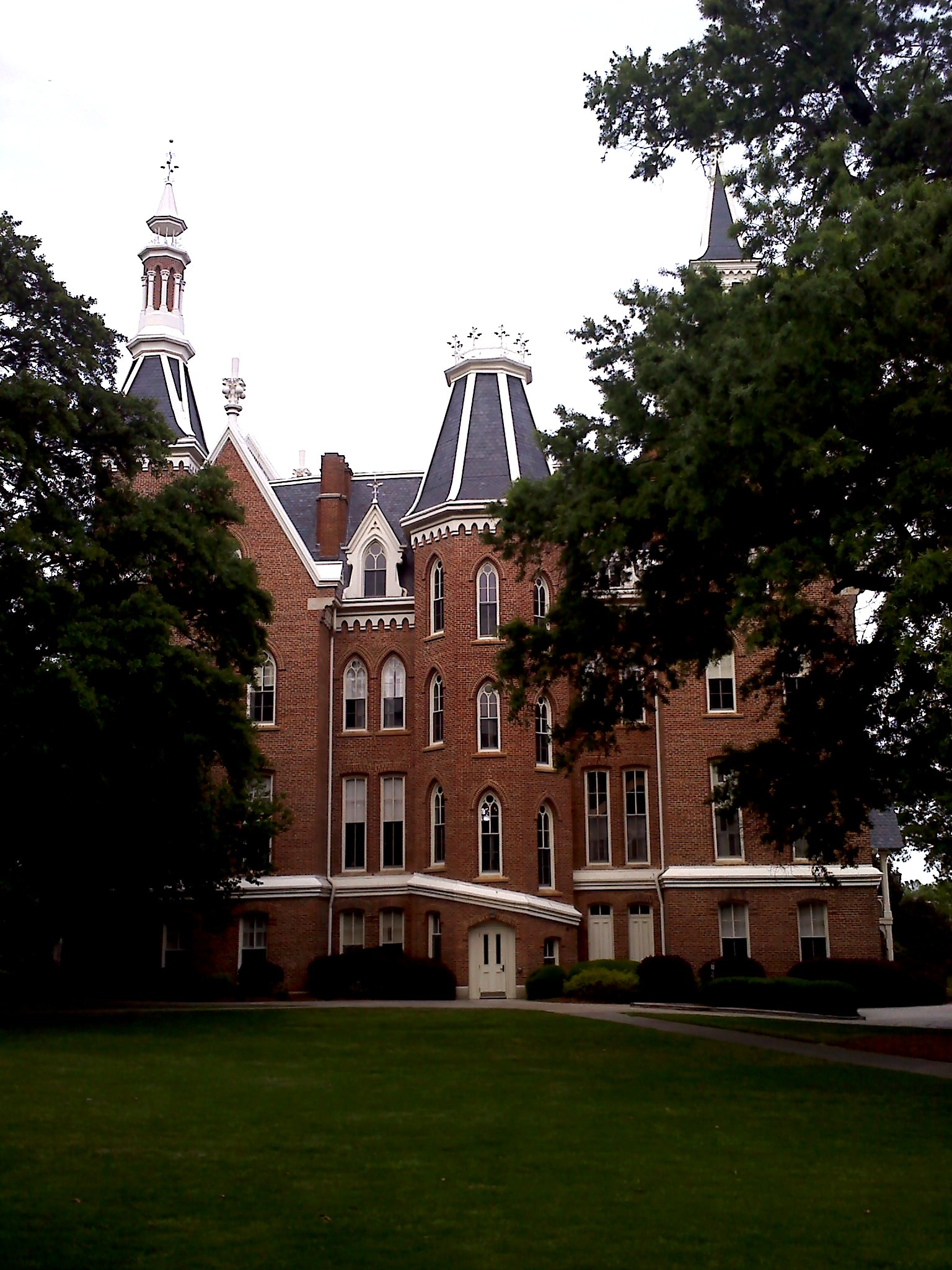 Mercer University, R. Kirby Godsey Administration Building in Macon, Georgia, United States. The building is listed on the National Register of Historic Places.